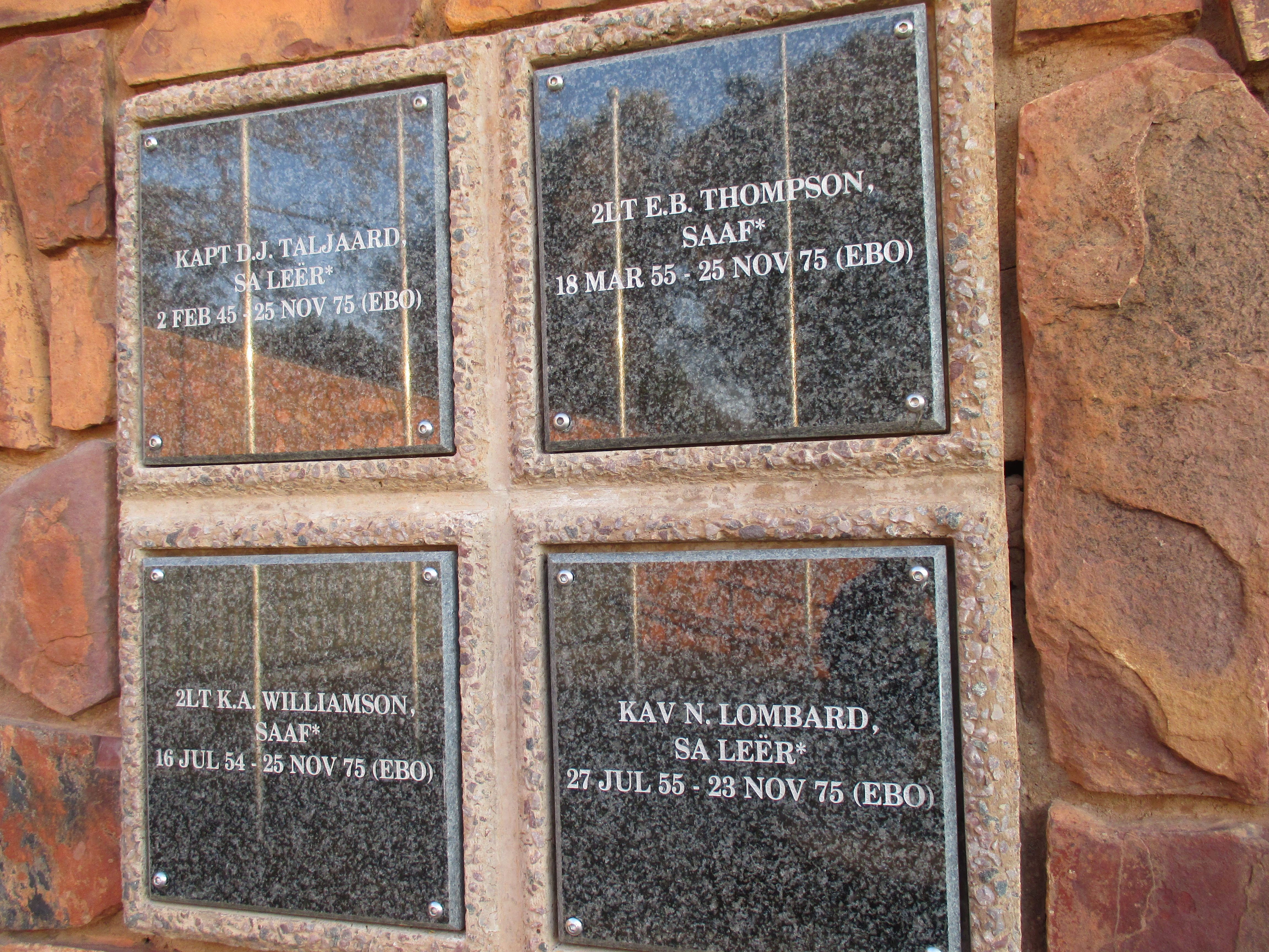 Description: Plaque honouring four South African servicemen killed during Operation Savannah, Voortrekker Monument, Pretoria. 2014. Remark: Three of the deceased were national servicemen who crewed Eland Mk7 armoured cars. The fourth was a spotter pilot in the SAAF.